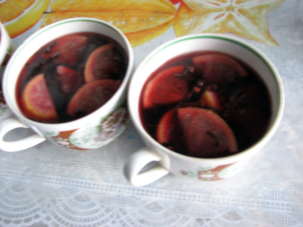 Mulled wine